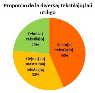 Ratio of textiles according to the end-use